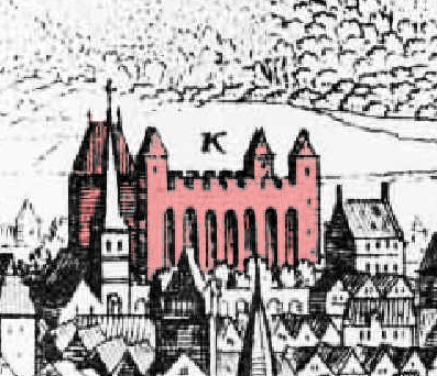 Constantine Basilica in the German town Trier. Part of an engraving from the 1646 book "Topographia Archiepiscopatuum Moguntinensis", which probably relied on a woodcut from 1548/1550. The coloration is not from the original engraving and was added to highlight the building.